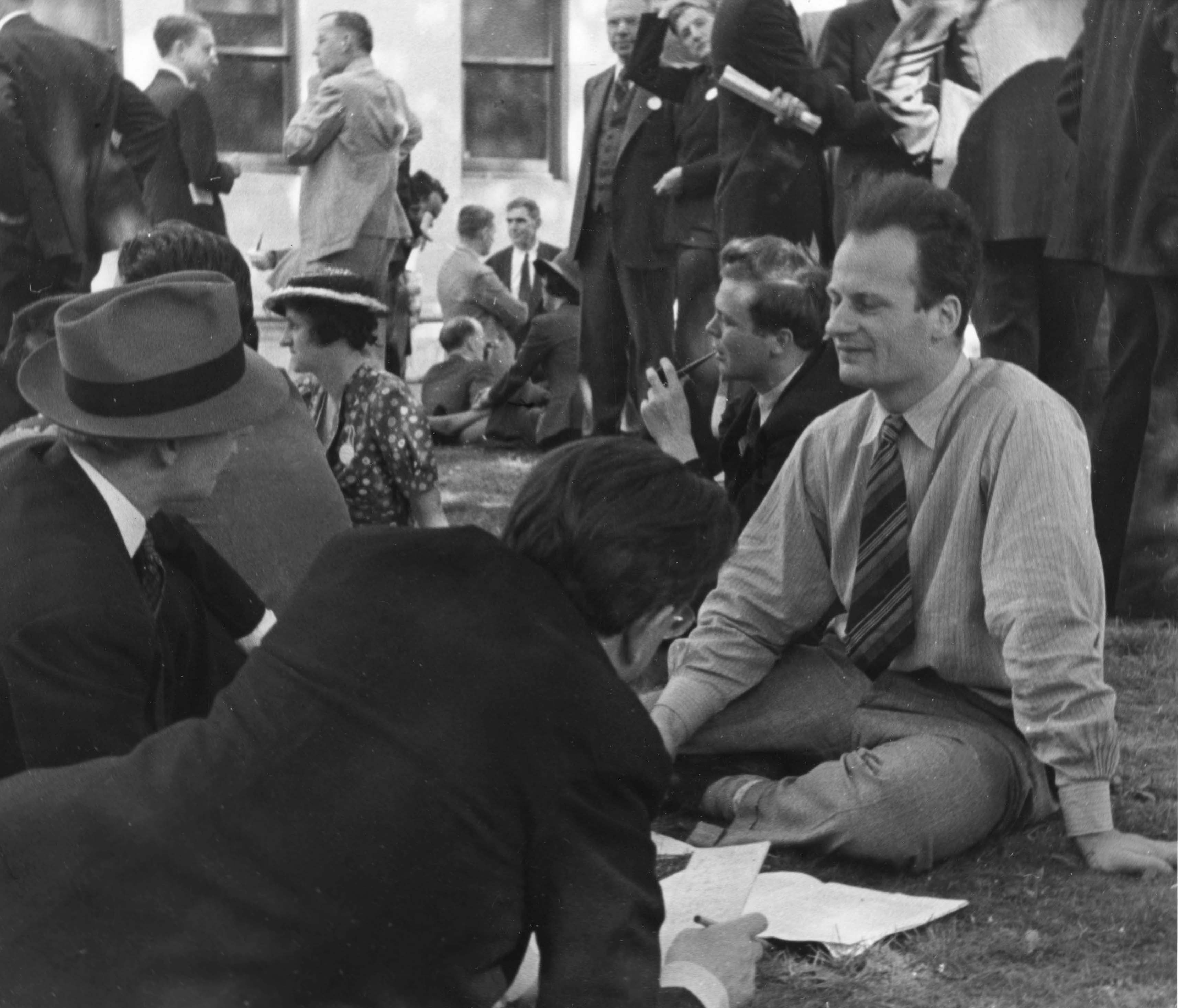 Subject: Bethe, Hans A (Hans Albrecht) 1906-2005 Type: Black-and-white photographs Topic: Physics Nobel Prizes Local number: SIA Acc. 90-105 [SIA2007-0017] Summary: Hans Albrecht Bethe (1906-2005) being interviewed by journalists. Bethe, German-American physicist, won the Nobel Prize in physics for his work on the theory of stellar nucleosynthesis Cite as: Acc. 90-105 - Science Service, Records, 1920s-1970s, Smithsonian Institution Archives